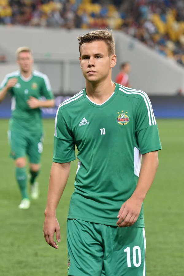 Louis Schaub